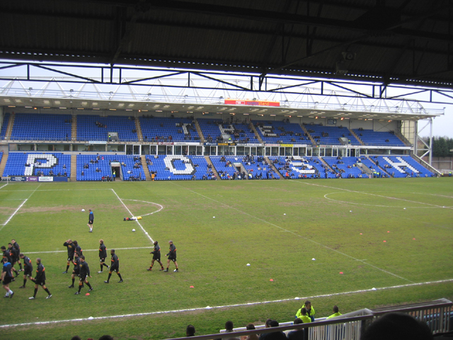 Peterborough United's South Family Stand beginning to fill up – view from the visitors' North Stand at the end of the pre-match warm-up for the visiting team at London Road stadium. Easter Saturday 2006 – result Posh 0 Boston United 1.